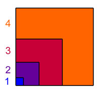 Square of a triangular number